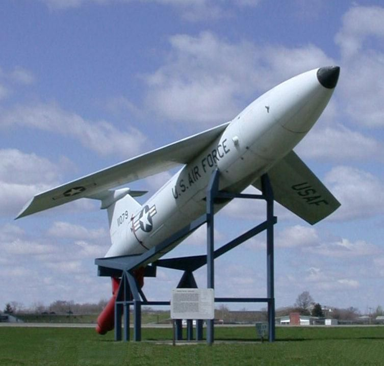 Image title: Martin matador cruise missile Image from Public domain images website